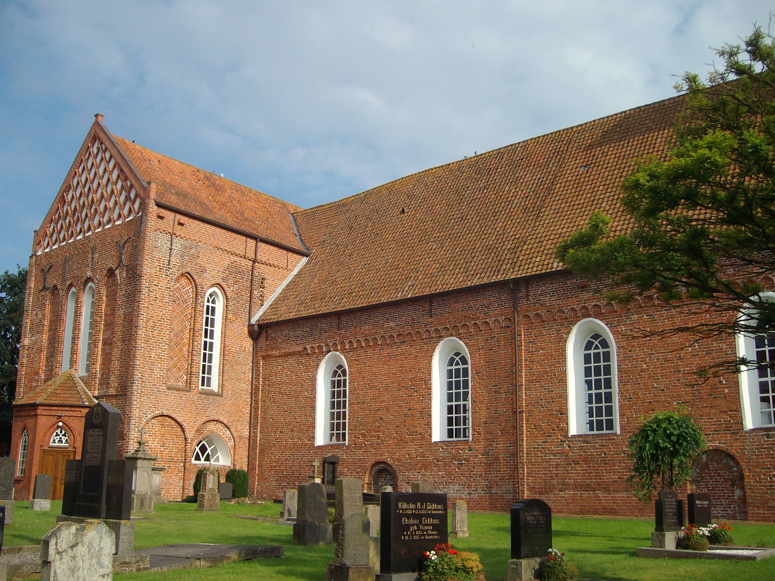 Historic church in Bunde, district of Leer, East Frisia, Germany